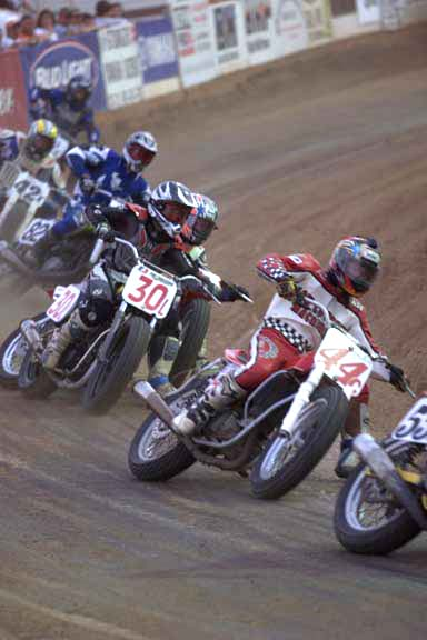 Flattrack racing